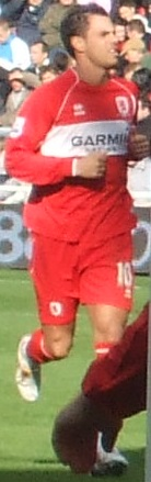 Jérémie Aliadière.